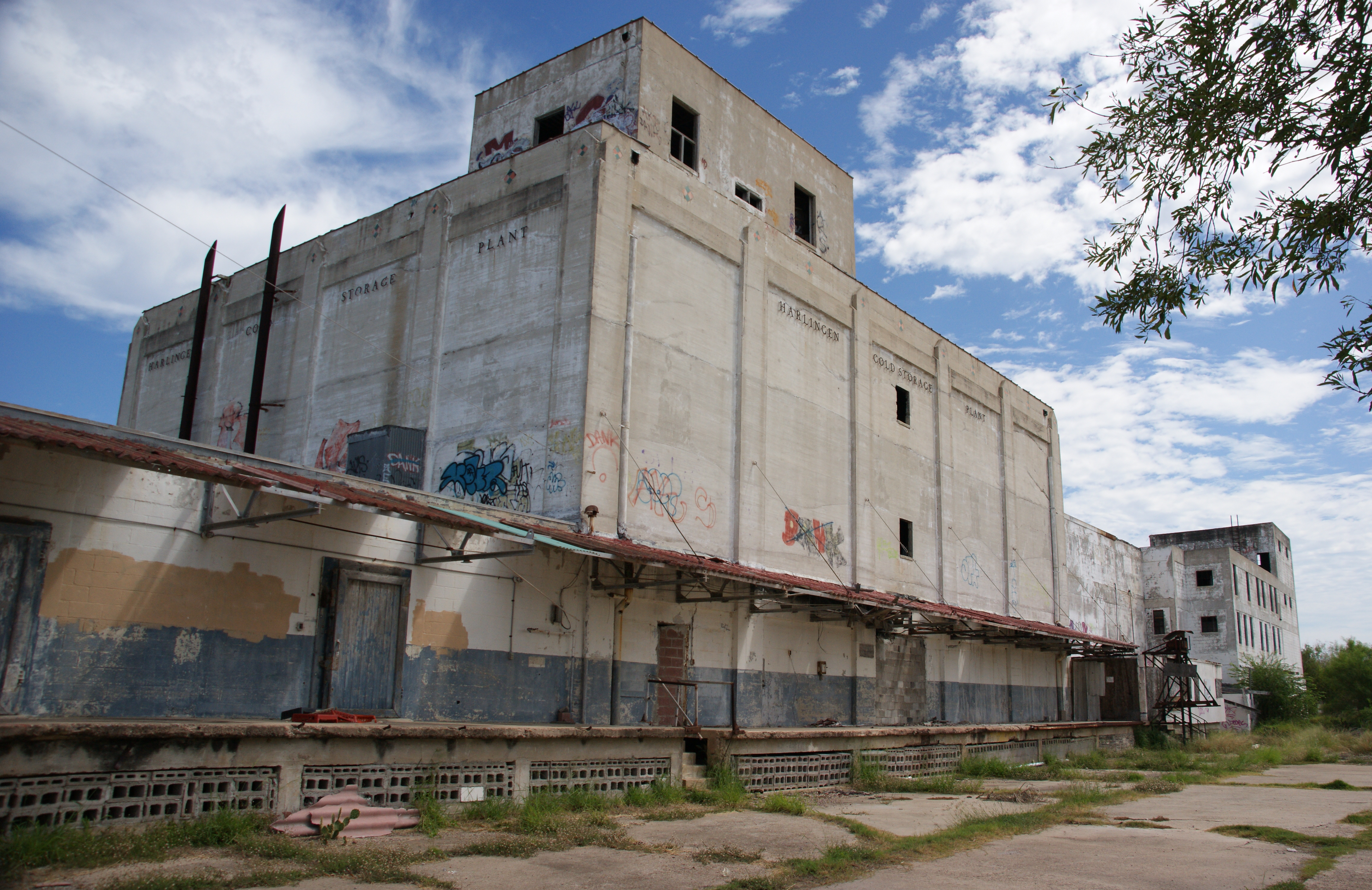 Harlingen Cold Storage